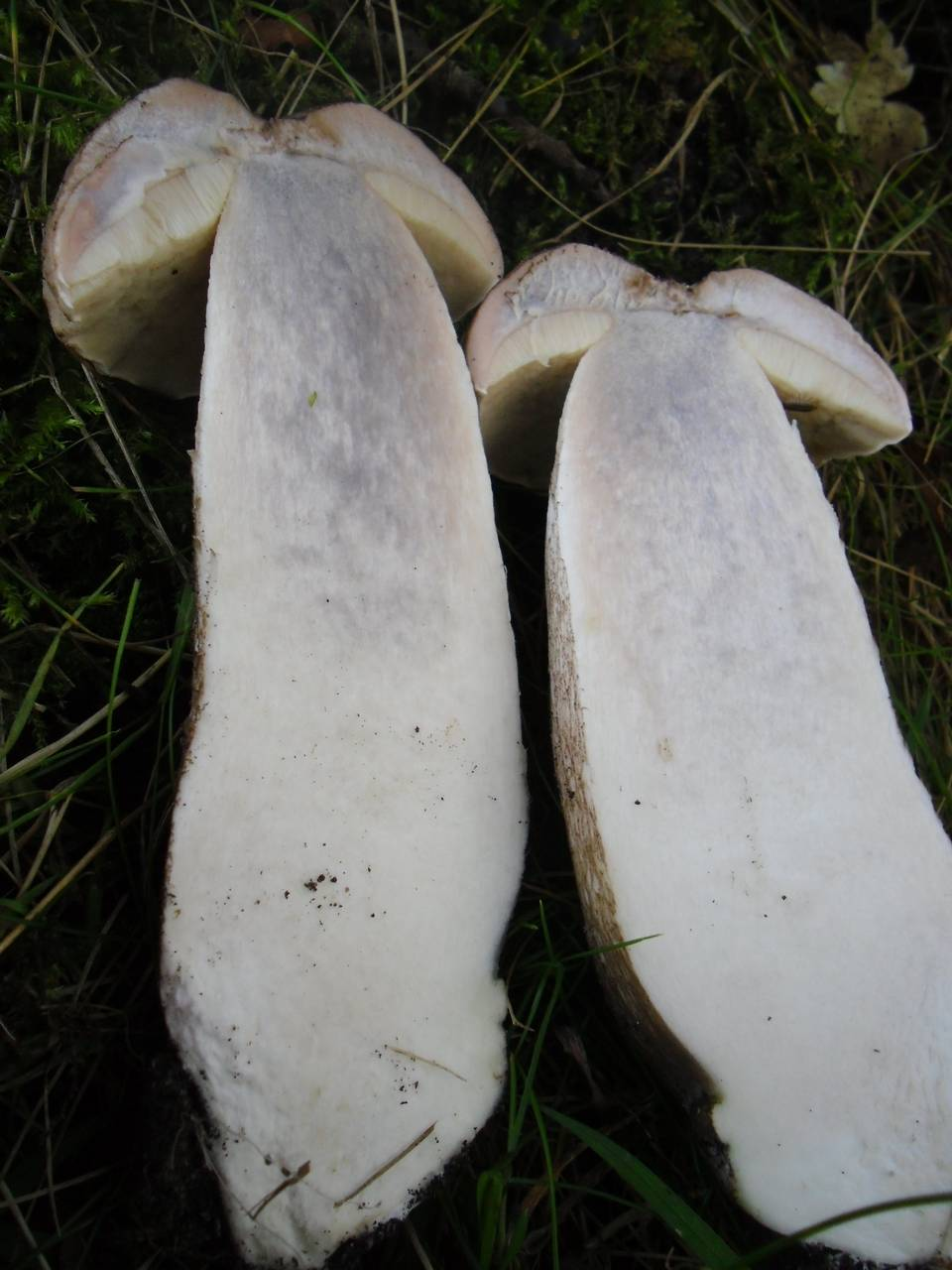 Leccinum duriusculum (Schulzer ex Kalchbr.) Singer Image location: De Uithof, Den Haag, Zuid-Holland, Netherlands For more information about this, see the observation page at Mushroom Observer.